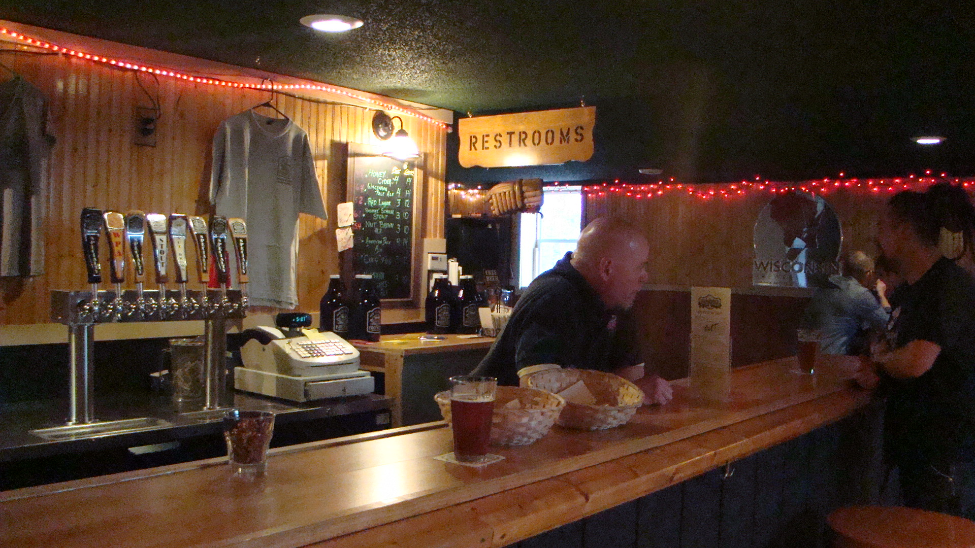 The bar at the taproom of South Shore Brewery, in Washburn, Wisconsin